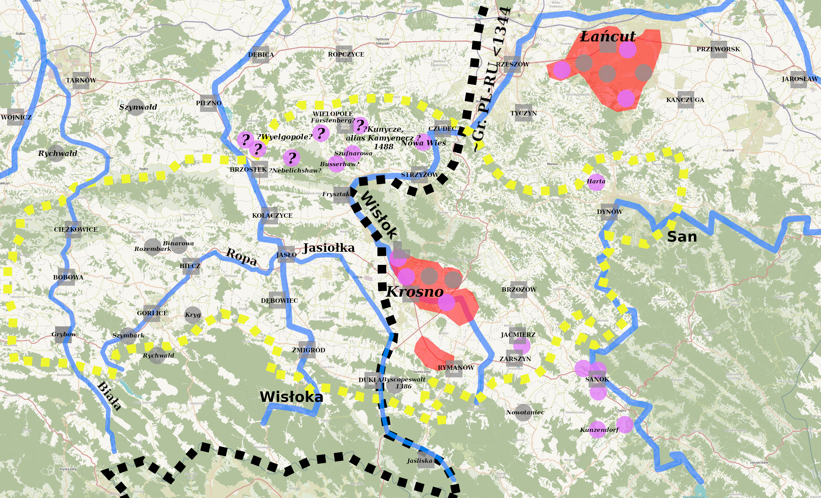 The area of Forest Germans (Walddeutsche, Głuchoniemcy) imposed on a modern map based mostly on Blajer (2007) (red: language islands, pink: settlements without confirmed german settlement) plus Barpara Czopek-Kopciuch (1995), Rymut (2003) (grey - names of german origin: square - towns, round - villages; empty squares - other cities, probably with some german merchant minority); yellow dotted line - area of Upper Highlanders (from File:PogMAP2.png) This is an improved version of File:Medieval German Settlements in Polish Carpathian Mountains.png without areas west of Wisłoka